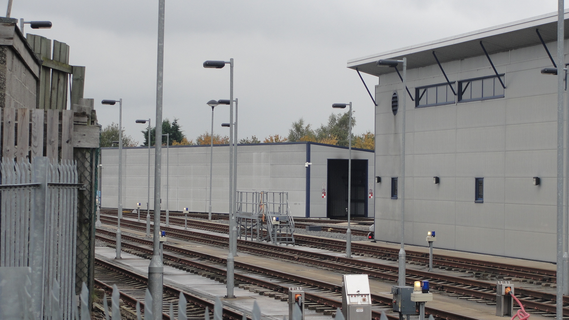 Buildings at the Siemans train care depot